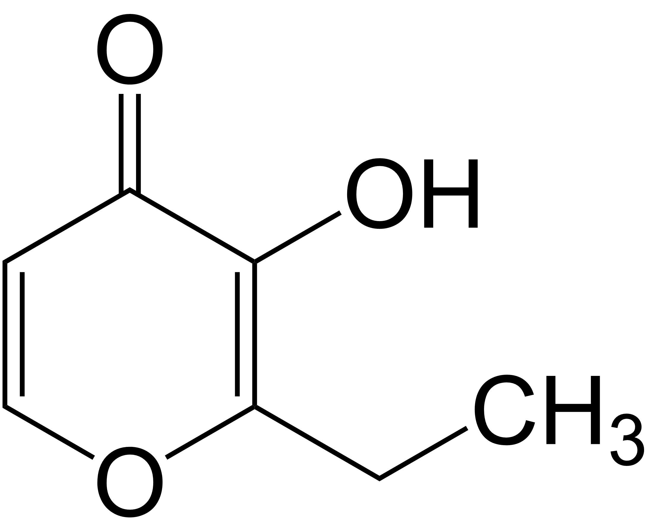 Ethyl maltol 2D molecular structure